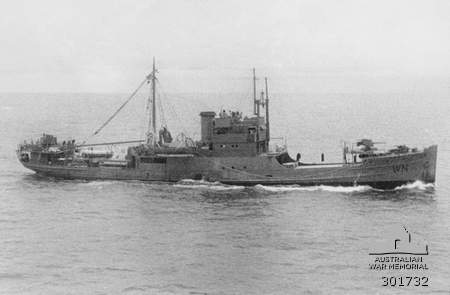 HMAS Wilcannia in February 1943. This ship was a coaster taken into service with the Royal Australian Navy as an auxilary anti-submarine vessel during World War II